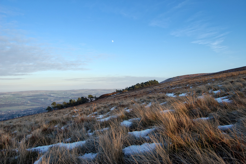 Dying rays of sunlight momentarily breathe warm colours into the browbeaten grass of a wintry Ilkley Moor on a clear evening as the daylight falls. The original image can be found in full resolution at this address.